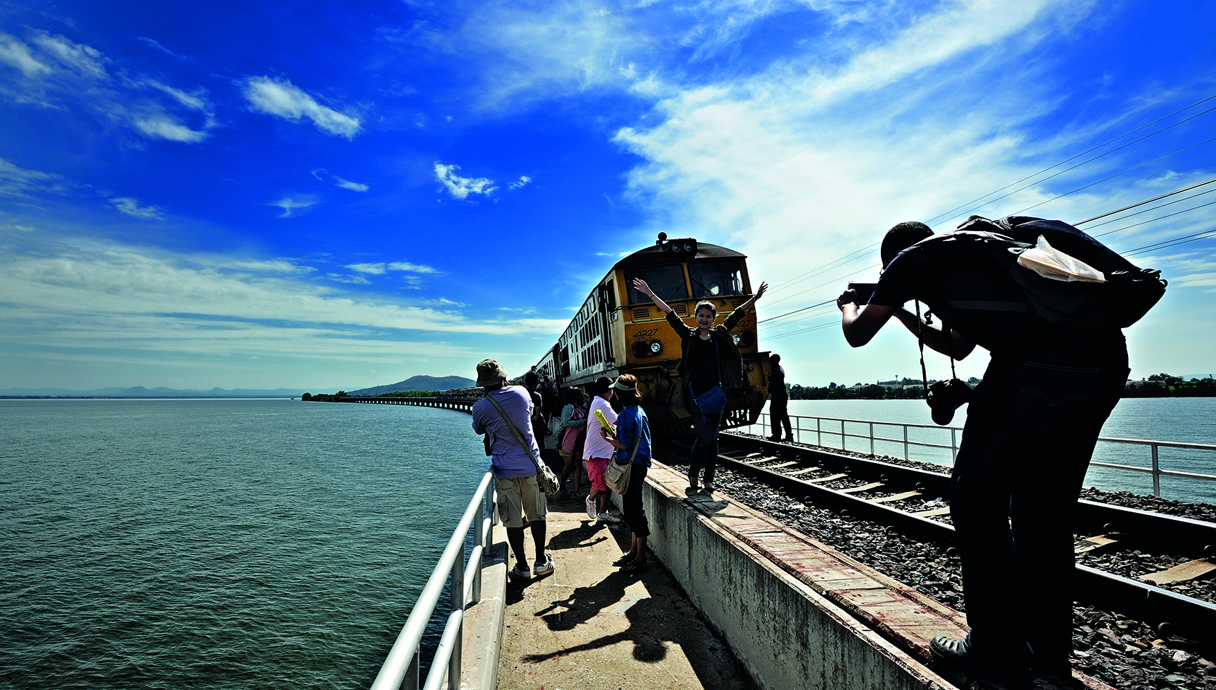 Located in Nong Bua subdistrict, Pattana Nikhom district, the dam is considered the Thailand’s longest earth-filled dam, with 4,860 metres in length and 785 million cubic metres in capacity. It took approximately 5 years to complete, from 1994 to 1999. The construction was under the royal initiation of H.M. King Bhumibol Adulyadej as he recognized problems related to water shortage in the area during the dry season. Today, the dam contributes to an irrigation system as well as flood mitigation. H.M. the King had named it “Pasak Chonlasit Dam” means “An efficient reservoir”.